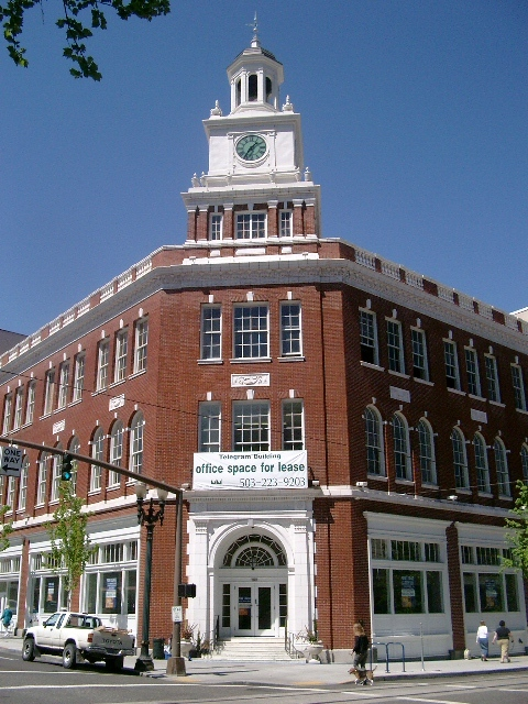 The Telegram Building in Portland, Oregon. Taken by self.